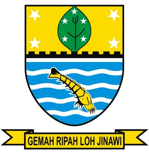 Lambang (Coat of Arms) of Kota (City) of Cirebon, provinsi Jawa Barat (West Java Province), Indonesia